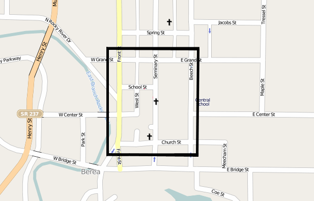 Map showing the boundaries of the Baldwin-Wallace College South Area Historic District in Berea Ohio United States. The historic district (United States) is listed on the National Register of Historic Places. Boundaries are derived from the map attached to the district's National Register nomination form.